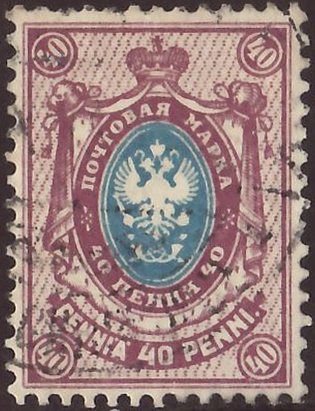 Stamp of Finland as Grand Duchy of the Russian Empire (German: "Großfürstentum"); 1911; definitive stamp in similar drawing of the then Russian stamps (variety of the so-called "Russian designs m/89 - new types"), but with Finnish currency; two different currency inscriptions with Cyrillic and Latin characters; circled postal value numbers in all four corners; postmarked (postmark unreadable) Stamp: Michel: No. 65A; Yvert & Tellier: No. 65; AFA: No. 65; Scott: No. 81 Color: lilac to violet / blue Watermark: none Nominal value: 40 PENNIÄ Postage validity: from 14 January 1911 until 31 May 1920